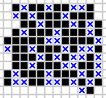 Conway's Life Garden of Eden pattern discovered by Achim Flammenkamp, 23rd June 2004. Black squares are required ON cells; small blue x's mark required OFF cells. This is the smallest such pattern known as of 4/2/2008 -- see the news update or, temporarily, this cache of the same.